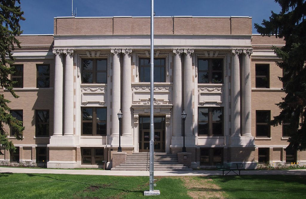 St. Louis County District Courthouse, 300 S. 5th Avenue, Virginia, Minnesota, USA. Viewed from the west.